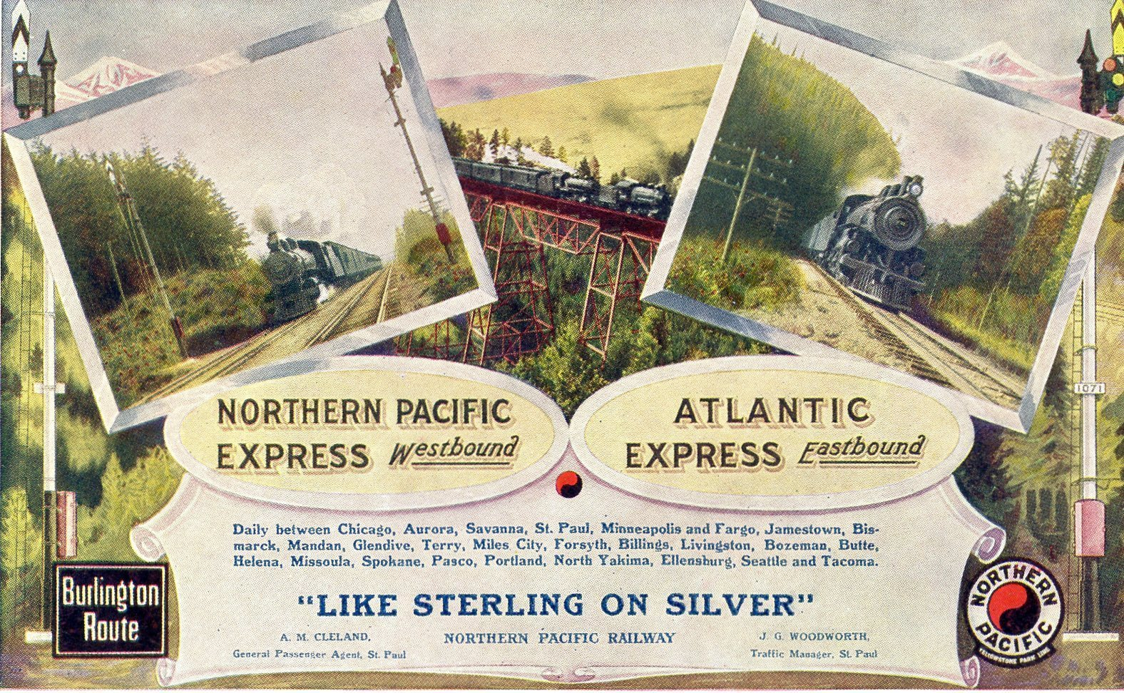 Postcard depiction of the Northern Pacific and Atlantic Express trains jointly operated by the Burlington Route and Northern Pacific Railway. The westbound train was called the Norther Pacific Express and the eastbound one, the Atlantic Express. The card details the stops on the train's route from Chicago to Seattle-Tacoma.